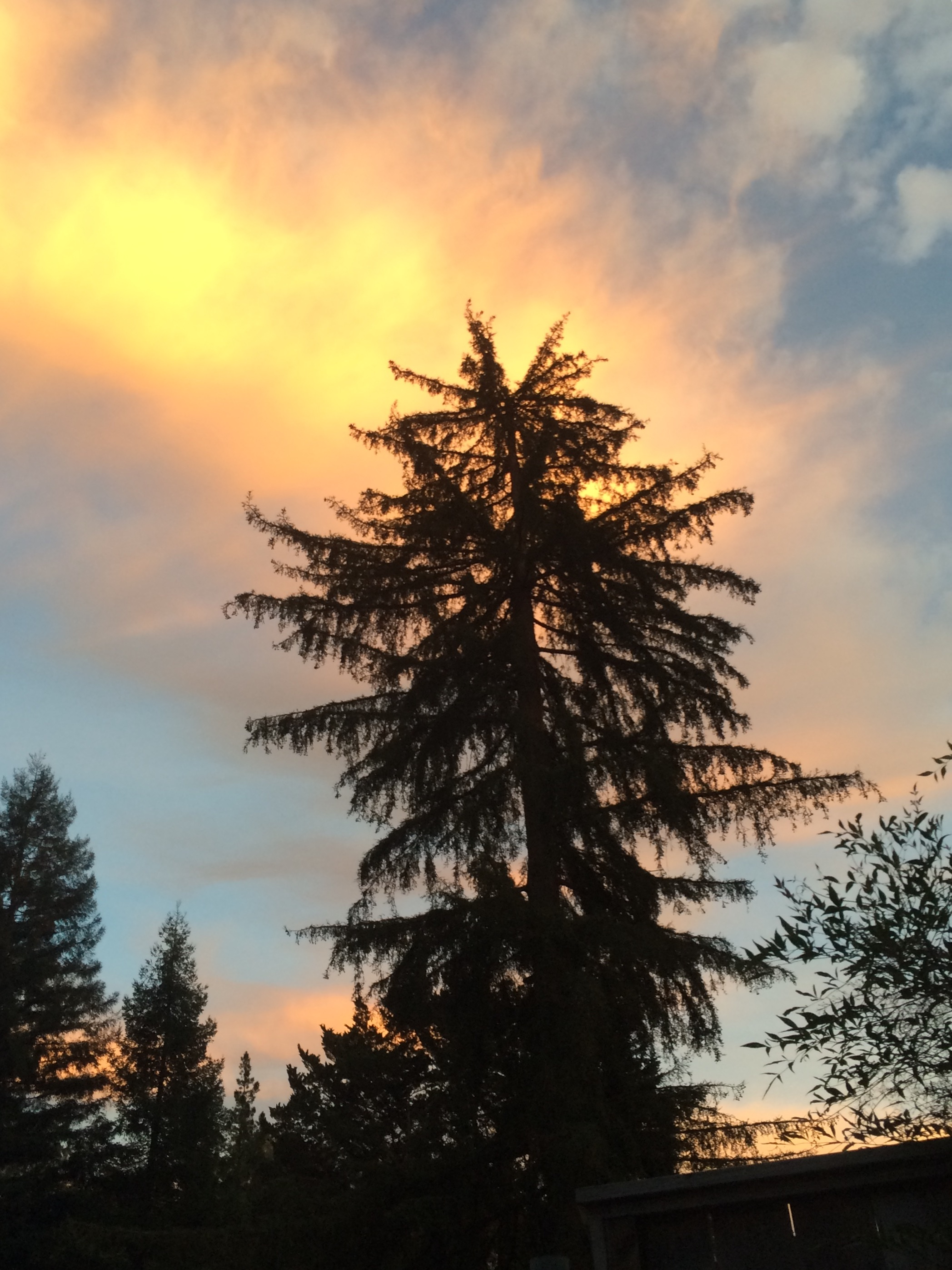 Sequoia Sempervirens in a neighboorhood of the Montclair District in Oakland, CA. This picture was taken with rear camera on iPhone 5s with no special filters and is not retouched in any way.